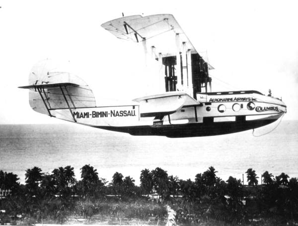 Aeromarine 75 Seaplane (converted Felixtowe F5L) in flight. Christened 'Columbus', the aircraft shown was an Aeromarine model 75 flying boat. Each model 75 was a conversion of a Curtiss F-5L or Curtiss H-16 maritime patrol aircraft originally built for the U.S. Navy. As war surplus these aircraft were bought and remodeled, some in the company's own workshops. During prohibition there were daily flights in the winter season to Bimini, the nearest "wet" spot to the U.S.